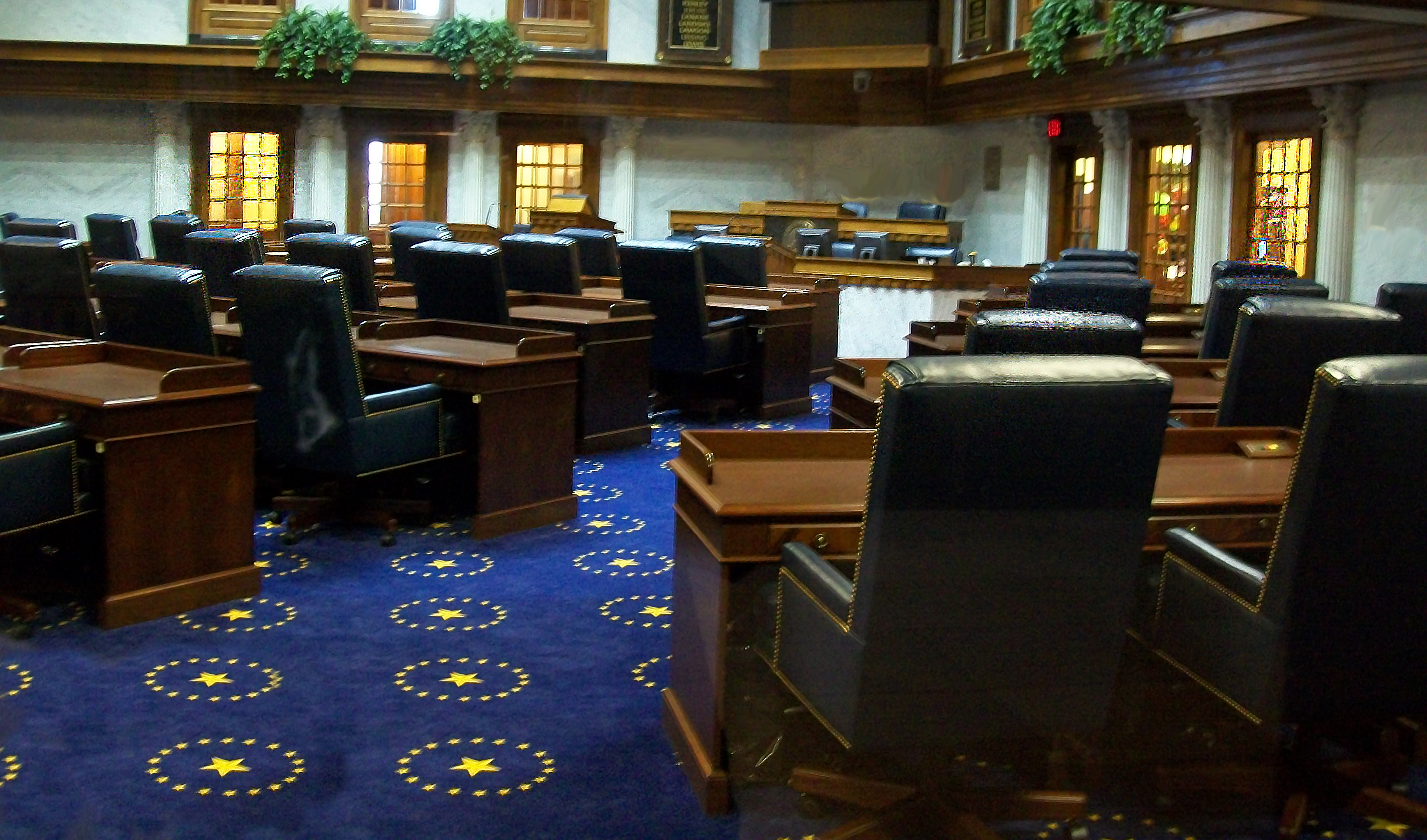 Indiana State Senate Chambers, Indiana Statehouse